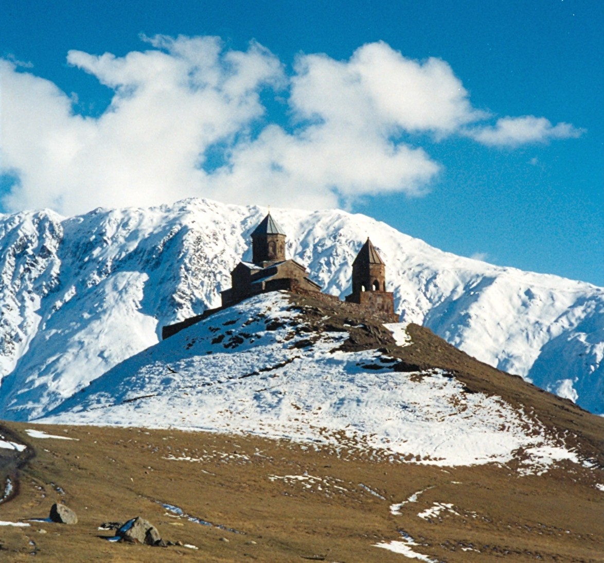 Gergeti Trinity Church (Tsminda Sameba) near Kazbegi, Georgia.